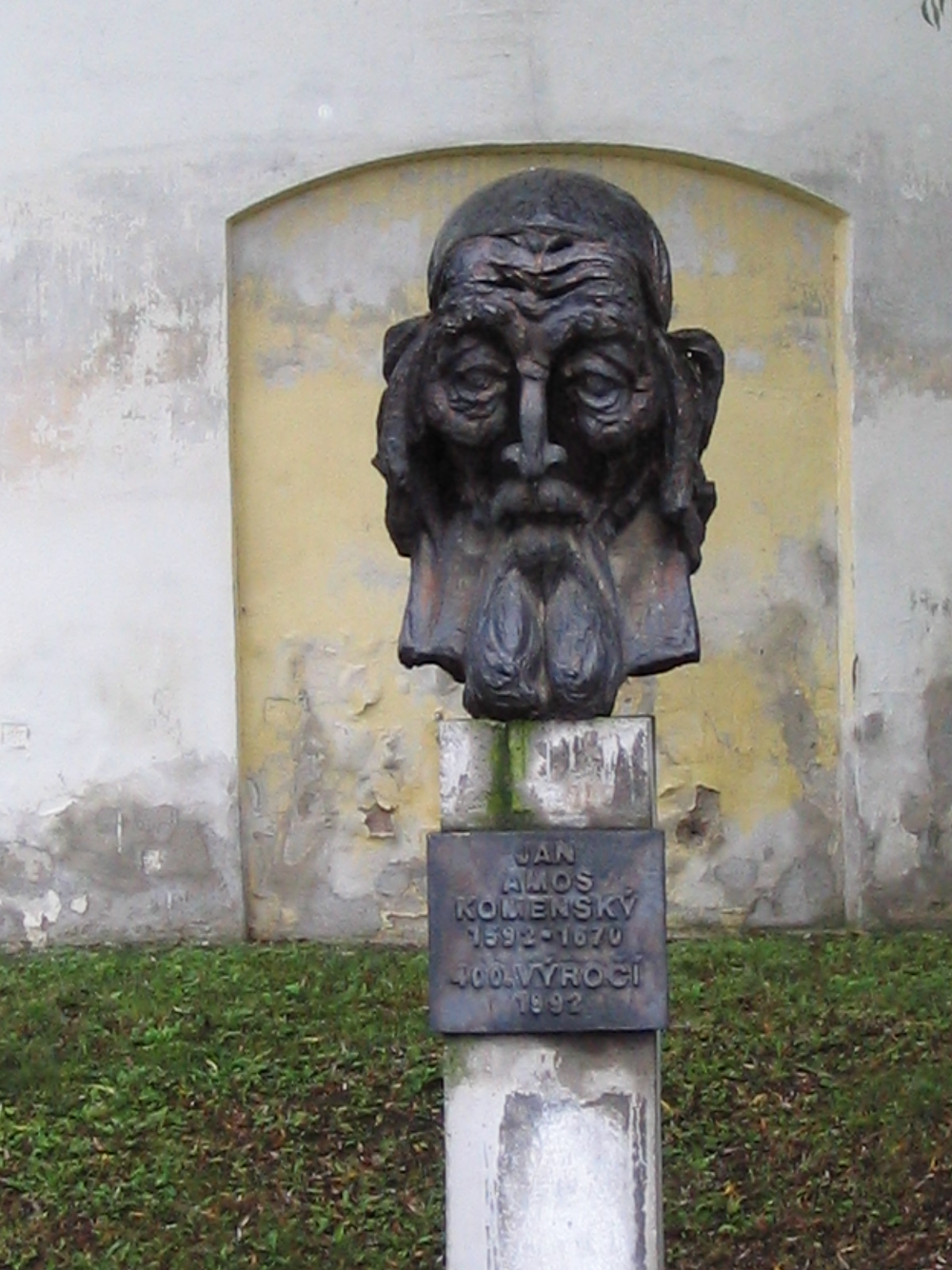 Bust of Comenius in Strážnice, Czech Repubic